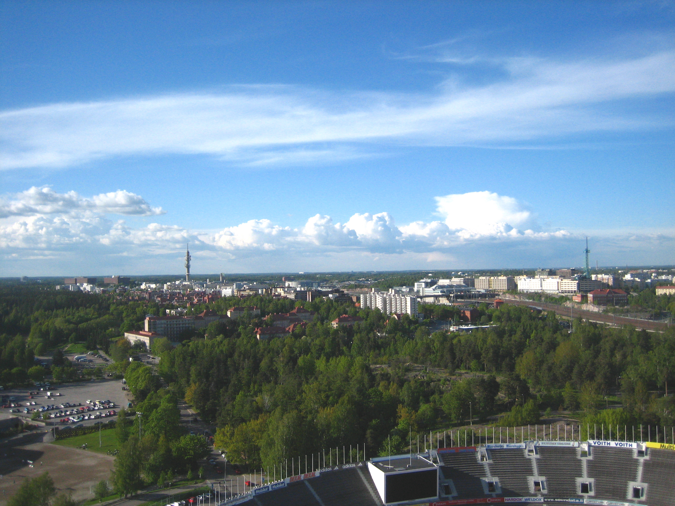 Pasila as seen from the Olympic Stadium tower. May 2006.